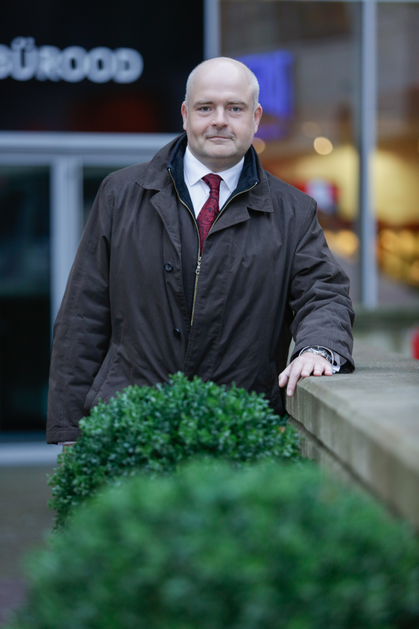 Justiitsminister Andres Anvelt saabumas Sotsiaaldemokraatliku Erakonna üldkogule 10. jaanuaril 2015. aastal.